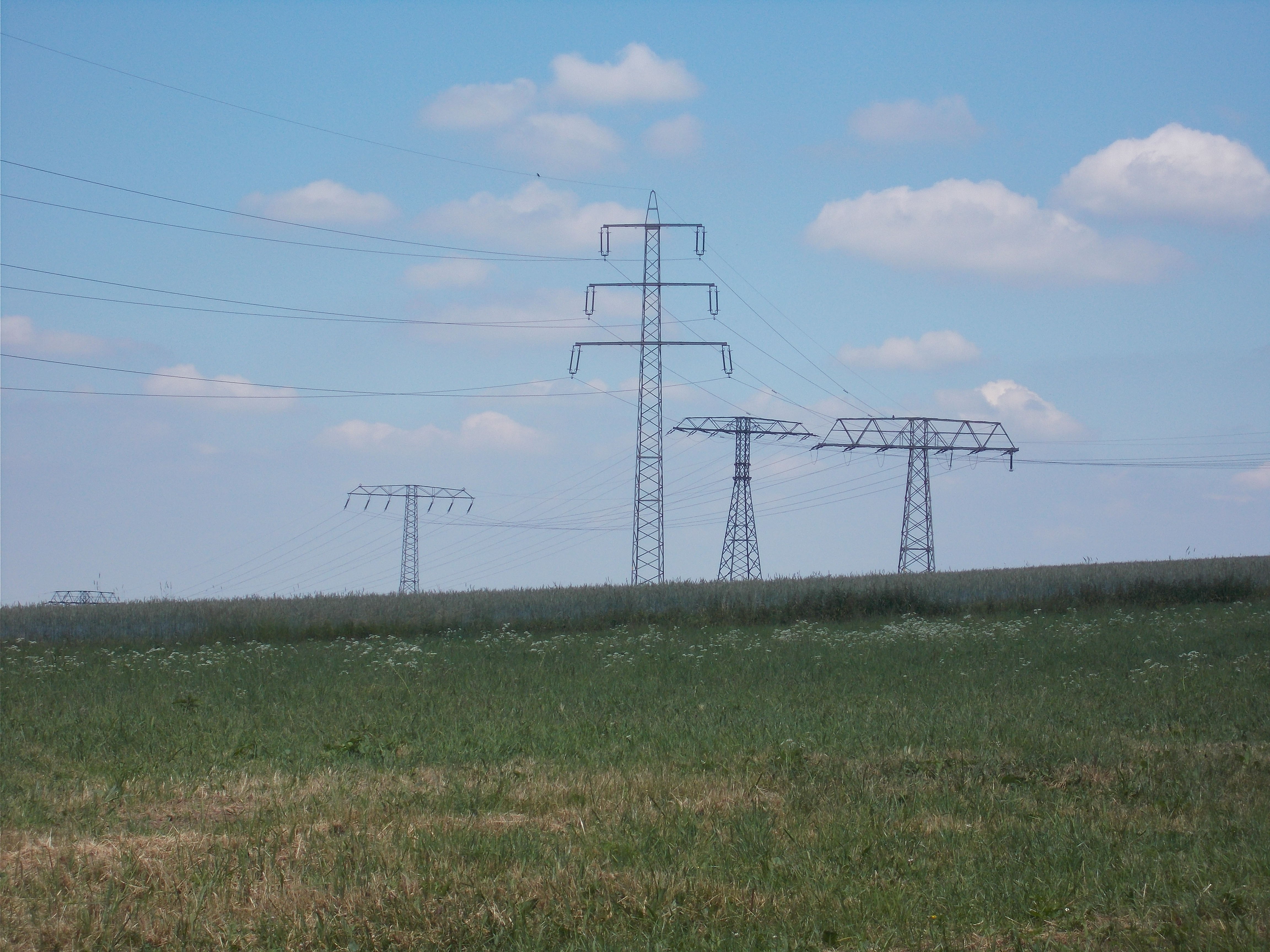 110kV pylon from 1924 (front) and from GDR era near Chemnitz, Saxony.